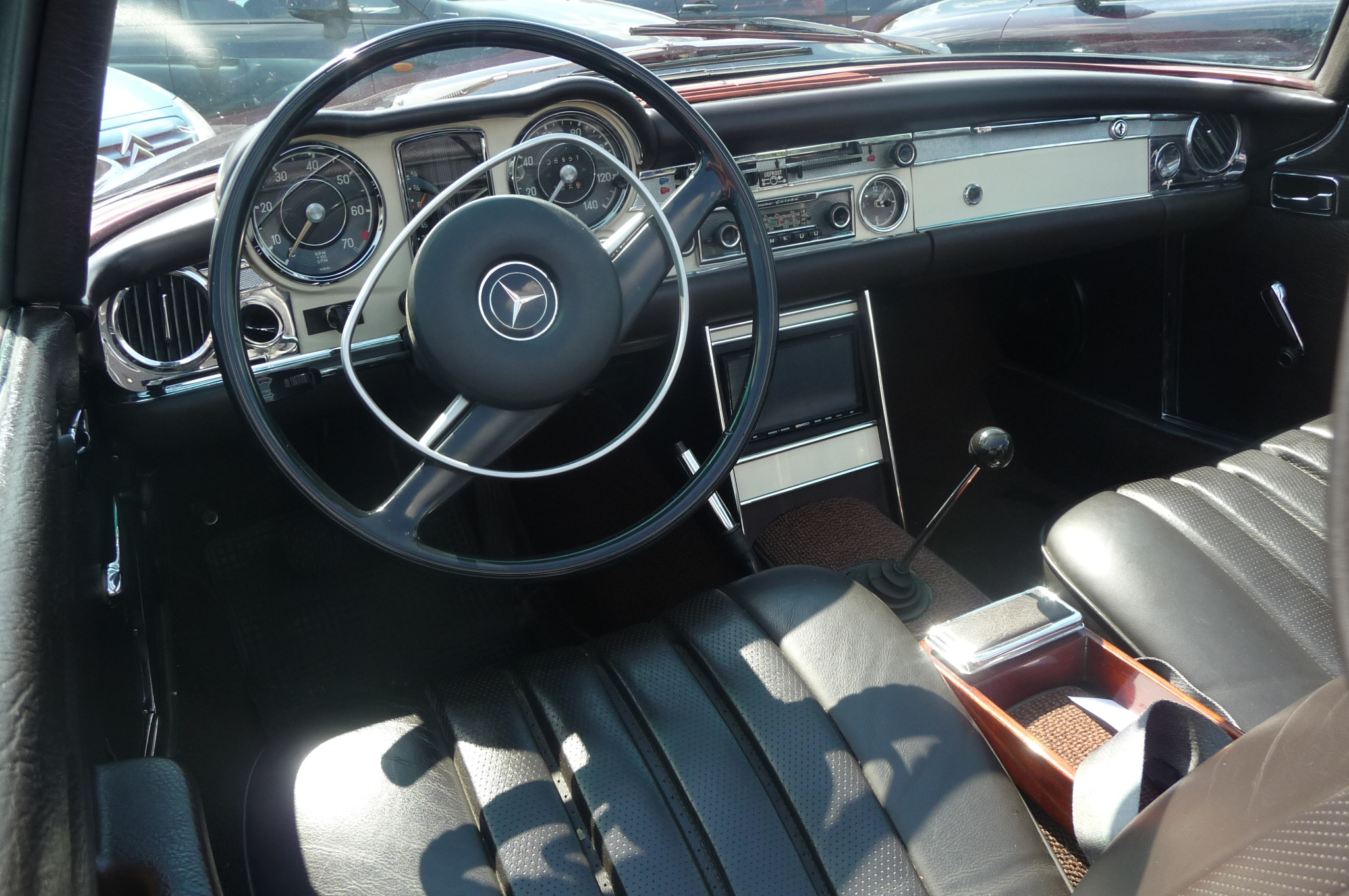 AM-05-71